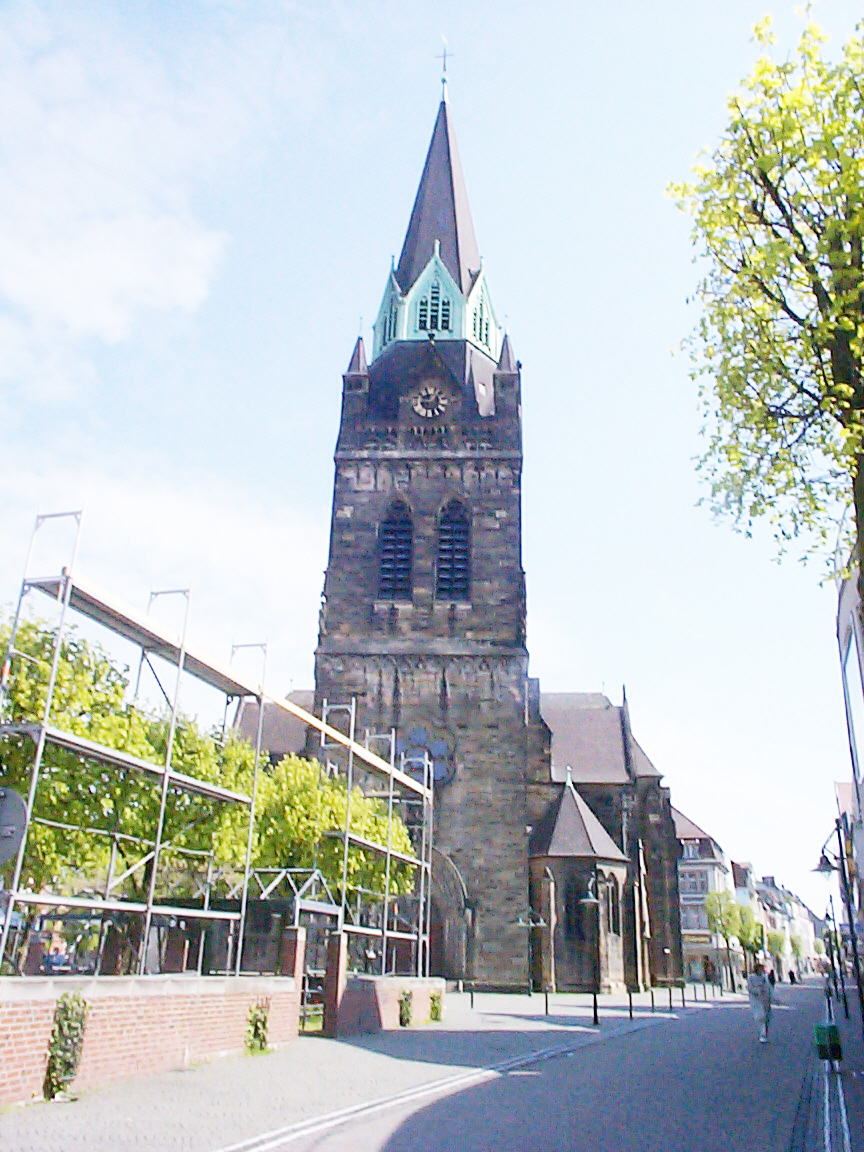 St. Mary church (Marienkirche) in Ahlen, Germany. Gothic revival architecture church at the shopping mile.